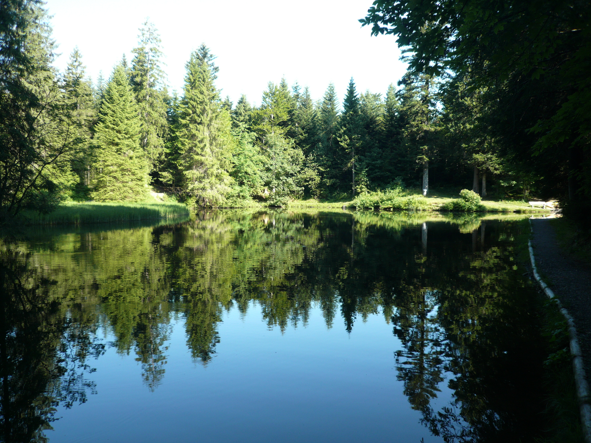 Lake at Boedele, Austria